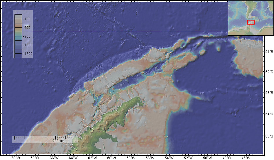 Bathymetry map displaying the geographical location of the Bransfield Basin.